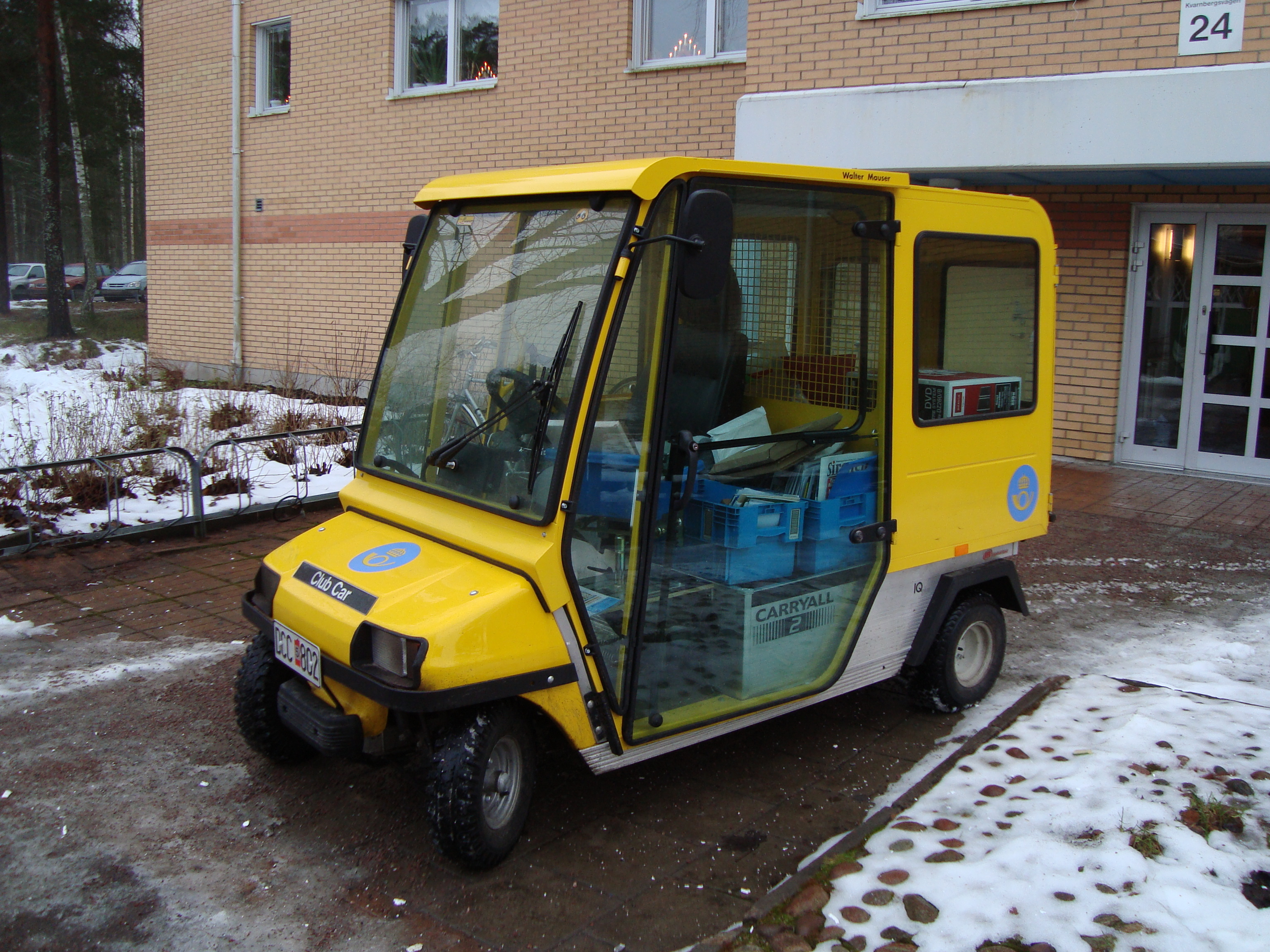 Electric moped ClubCar Caryall in the Swedish postal service at Kvarnberget, Falun, Sweden.